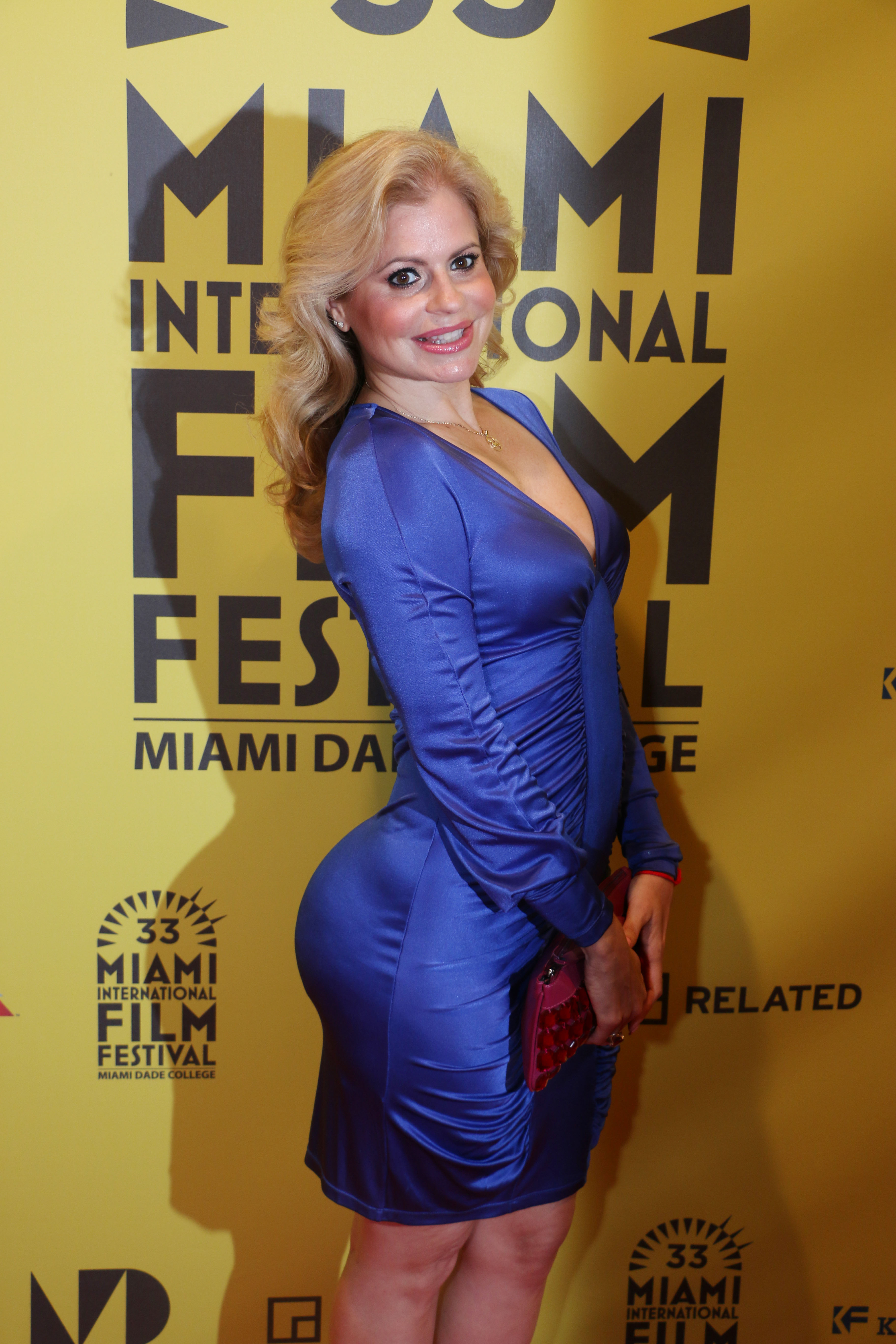 Francesca Cruz on the red carpet at the 2014 Miami International Film Festival 2016 'My Big Night' opening night at Olympia Theater At Gusman Hall in Miami, Florida. Photo